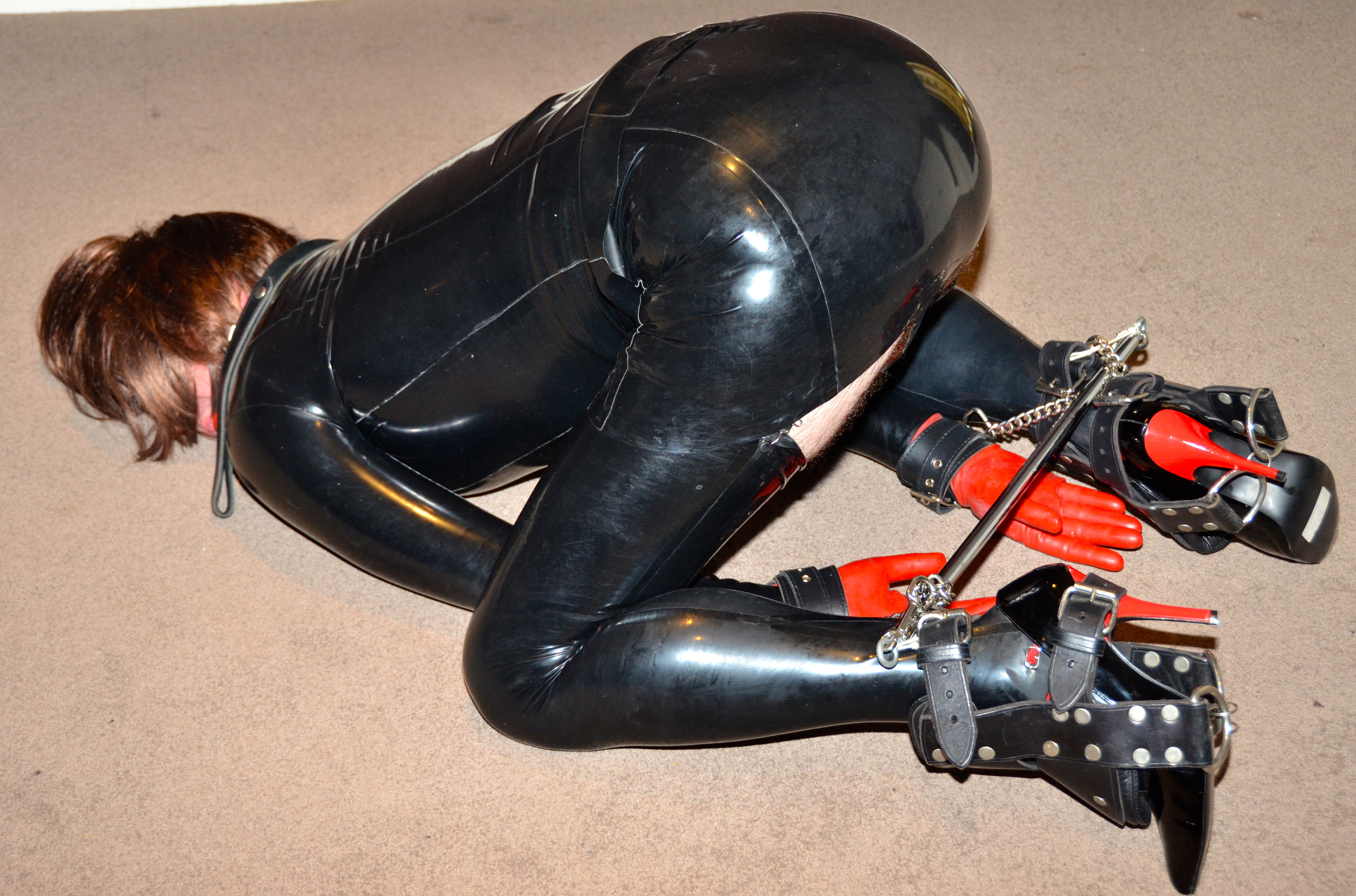 A transvestite dressed in latex shackled with a spreader bar